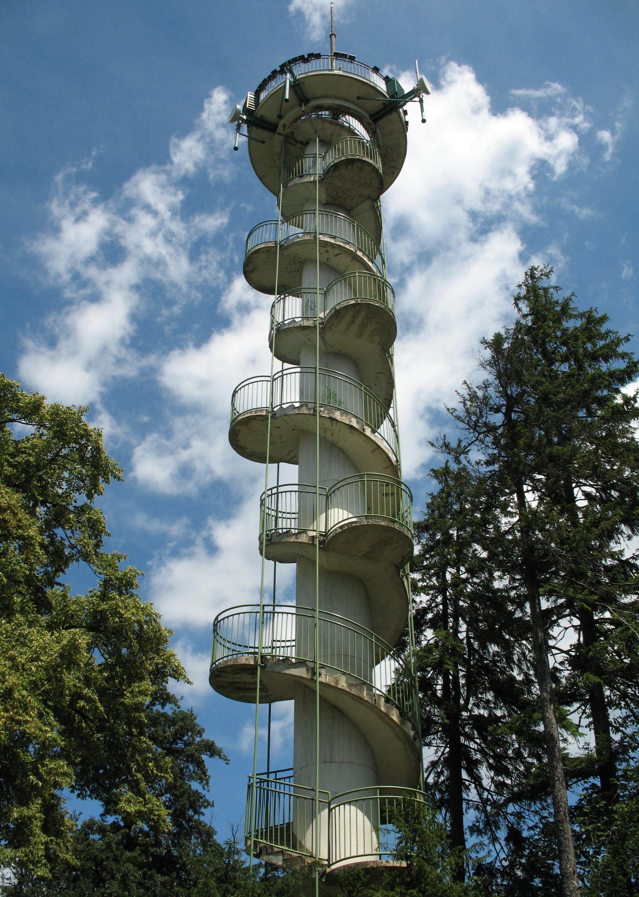 Jubiläumswarte ("jubilee tower") in Vienna, Austria